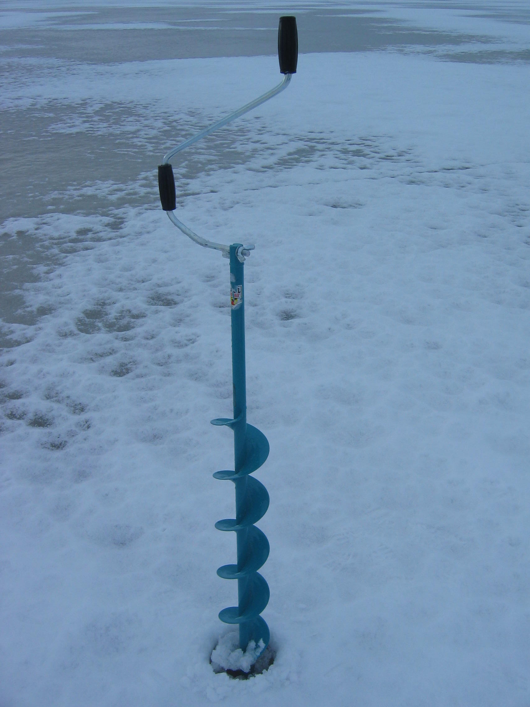 Ice drill used in winter fishing.